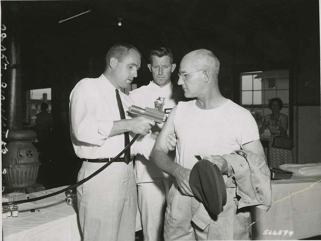 SP5 Lawrence E. Blackman (Darlington, SC) Hq & Hq Co, USASTC, receives the first typhus shot administered by Hypospray Jet Injector at Fort Gordon by Mr. John R. Gordon, representative of the R.P. Schere Corp., Detroit, Michigan. M/Sgt Edward Sammons (Rush, KY), Administrative NCO, Post Surgeon’s Office, who swabbed the patients arm, observes. Fort Gordon, GA. 08/26/1959. Photo by Roy C. McManus. Post Sig Photo Lab, Fort Gordon, GA. Selected by Kathleen.